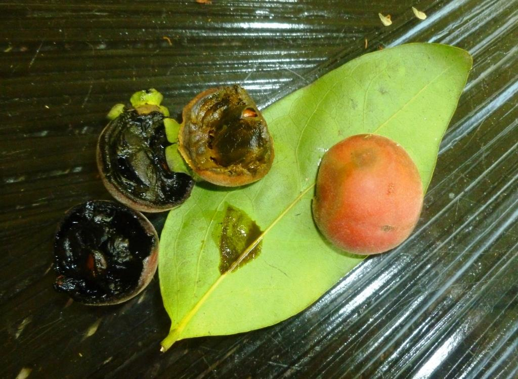 Photo taken near my home outside Cooktown, Queensland, Australia. Nov.2015